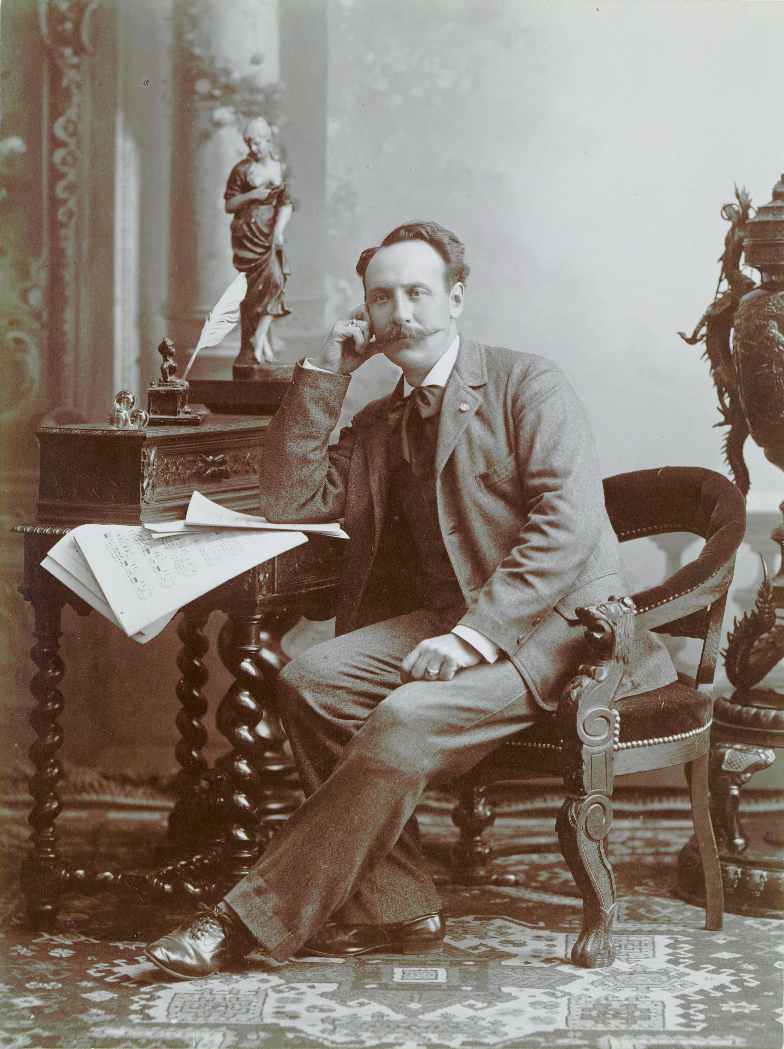 French organist and composer Fernand de La Tombelle (1854-1928).